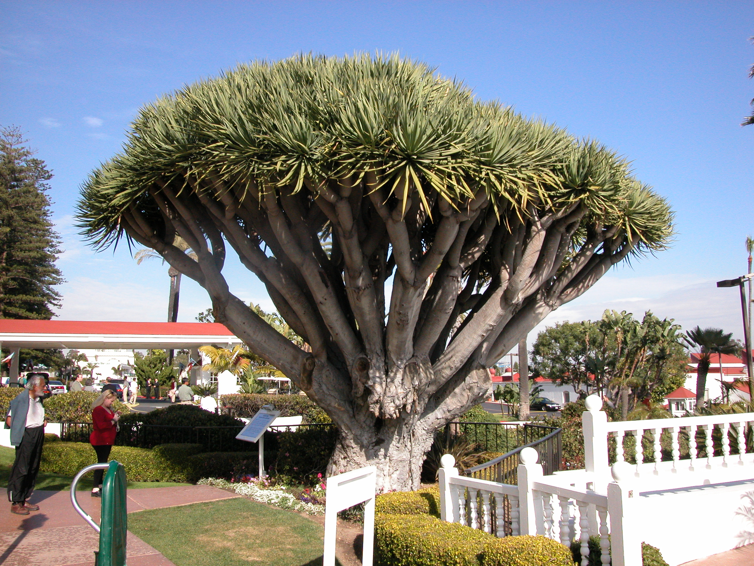 Dracaena draco, the Dragon Tree, at the Hotel del Coronado. Camera used is a Nikon Coolpix 5000.